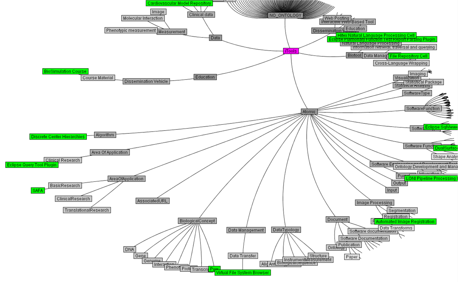 NCBC Biositemap image using iTools The Biositemaps Protocol allows scientists, engineers, centers and institutions engaged in modeling, software tool development and analysis of biomedical and informatics data to broadcast and disseminate to the world the information about their latest computational biology resources (data, software tools and web-services).